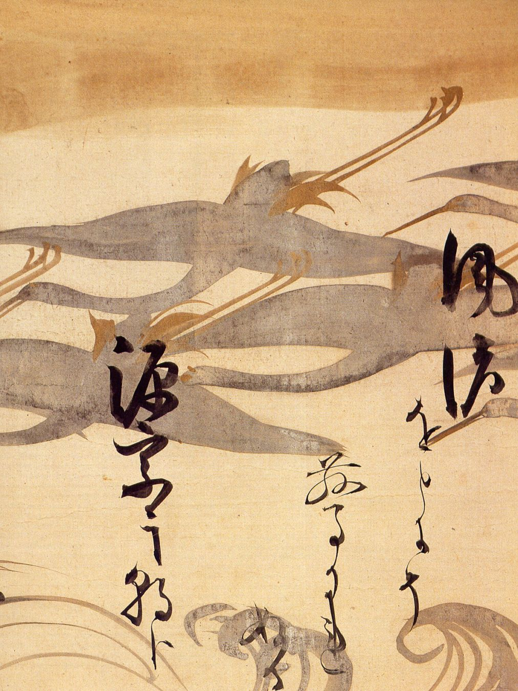 Hon’ami Koetsu and Tawaraya Sotatsu: Tsuru emaki, detail. 1605-1615. Ink, color, silver and gold on paper, 1356x34 cm. Kyoto national Museum.